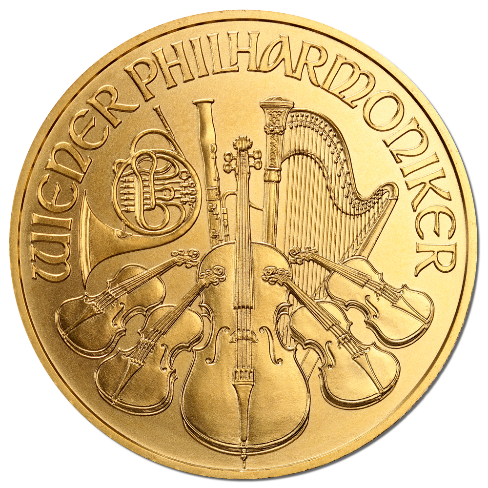 Avers of the 1 oz Vienna Philharmonics gold coin.